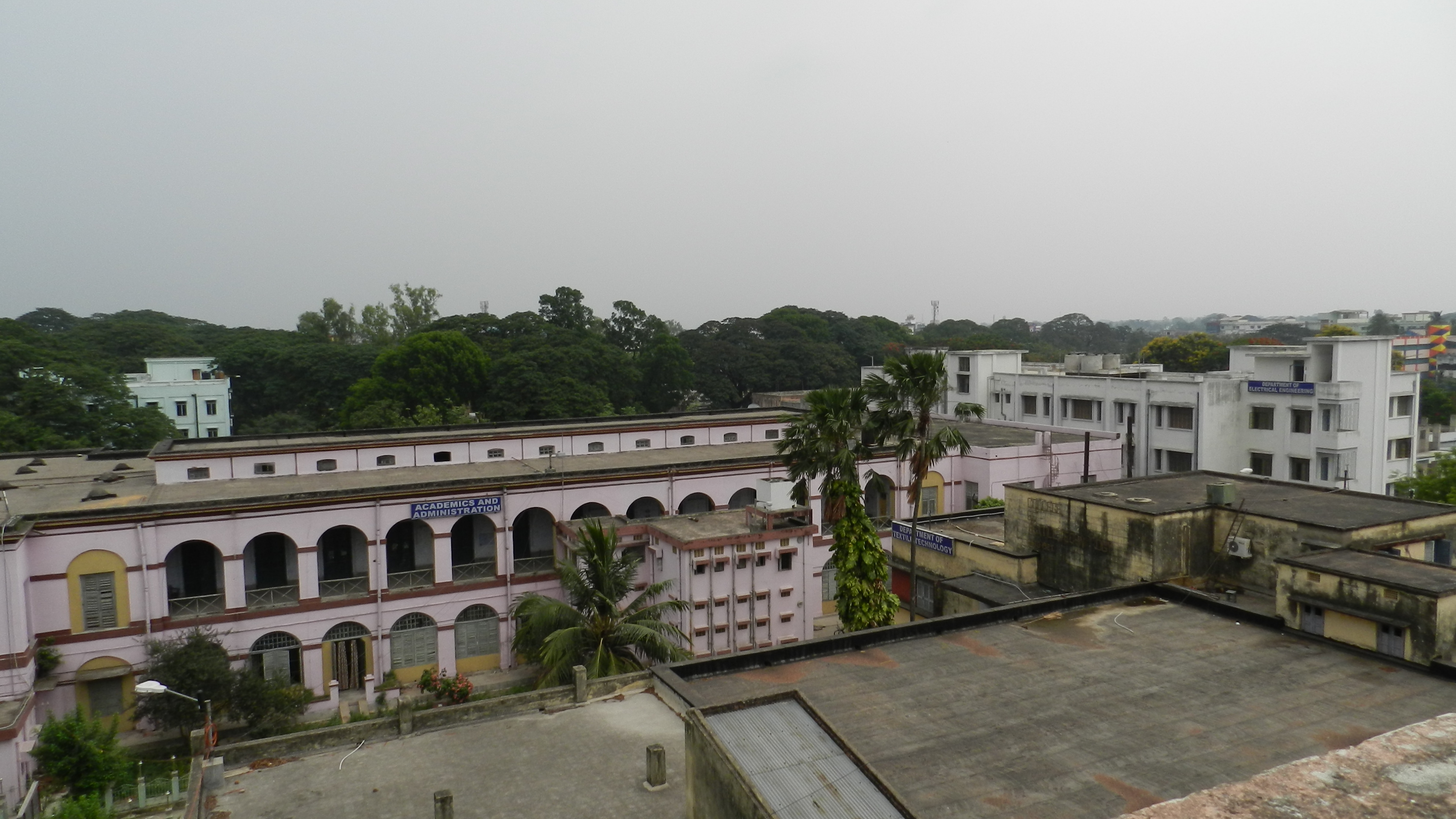 top view